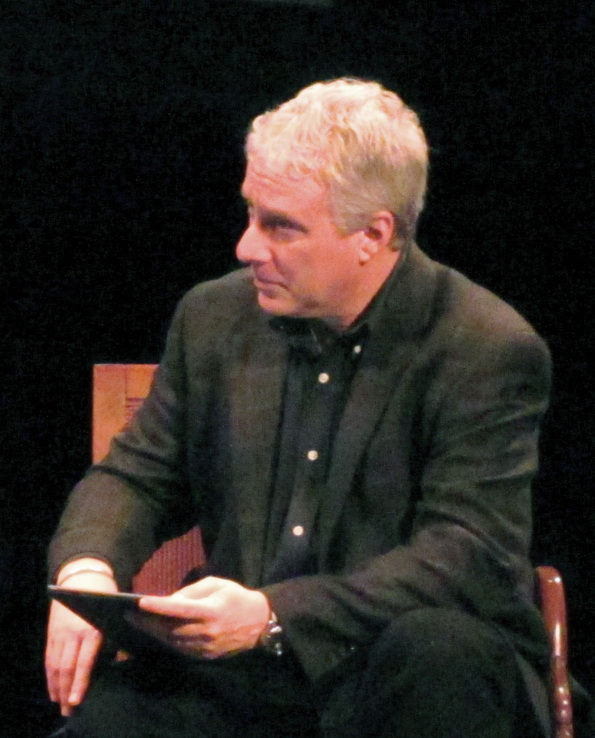 David Brancaccio of NPR's Marketplace Morning Report, co-moderating the event How Tech has changed Philanthropy